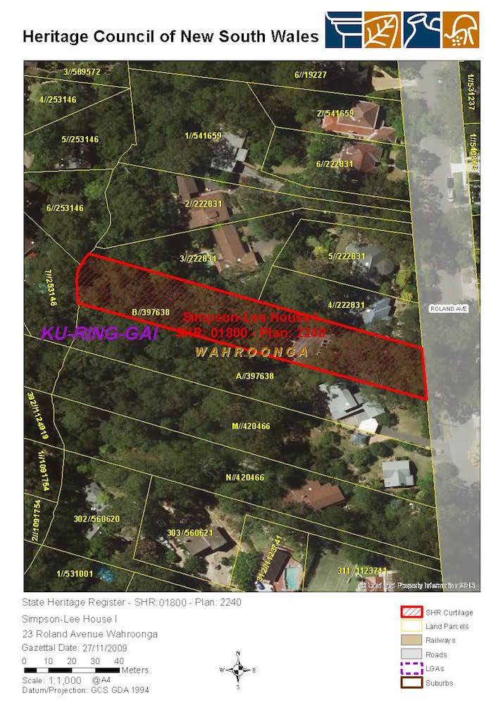 Simpson-Lee House I: SHR Plan 2240